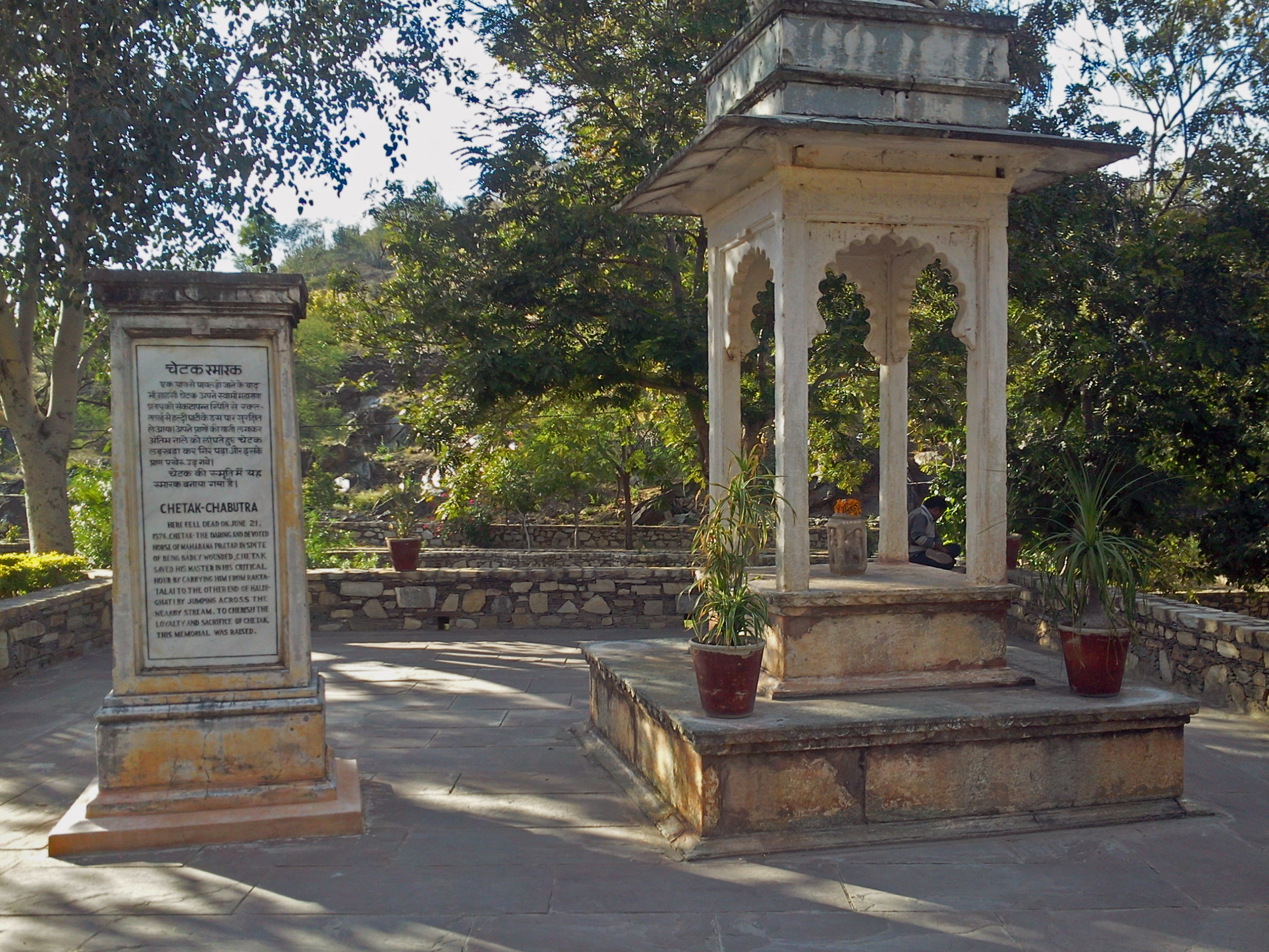 Chetak Samadhi, Haldi Ghati, Rajsamand, Rajasthan